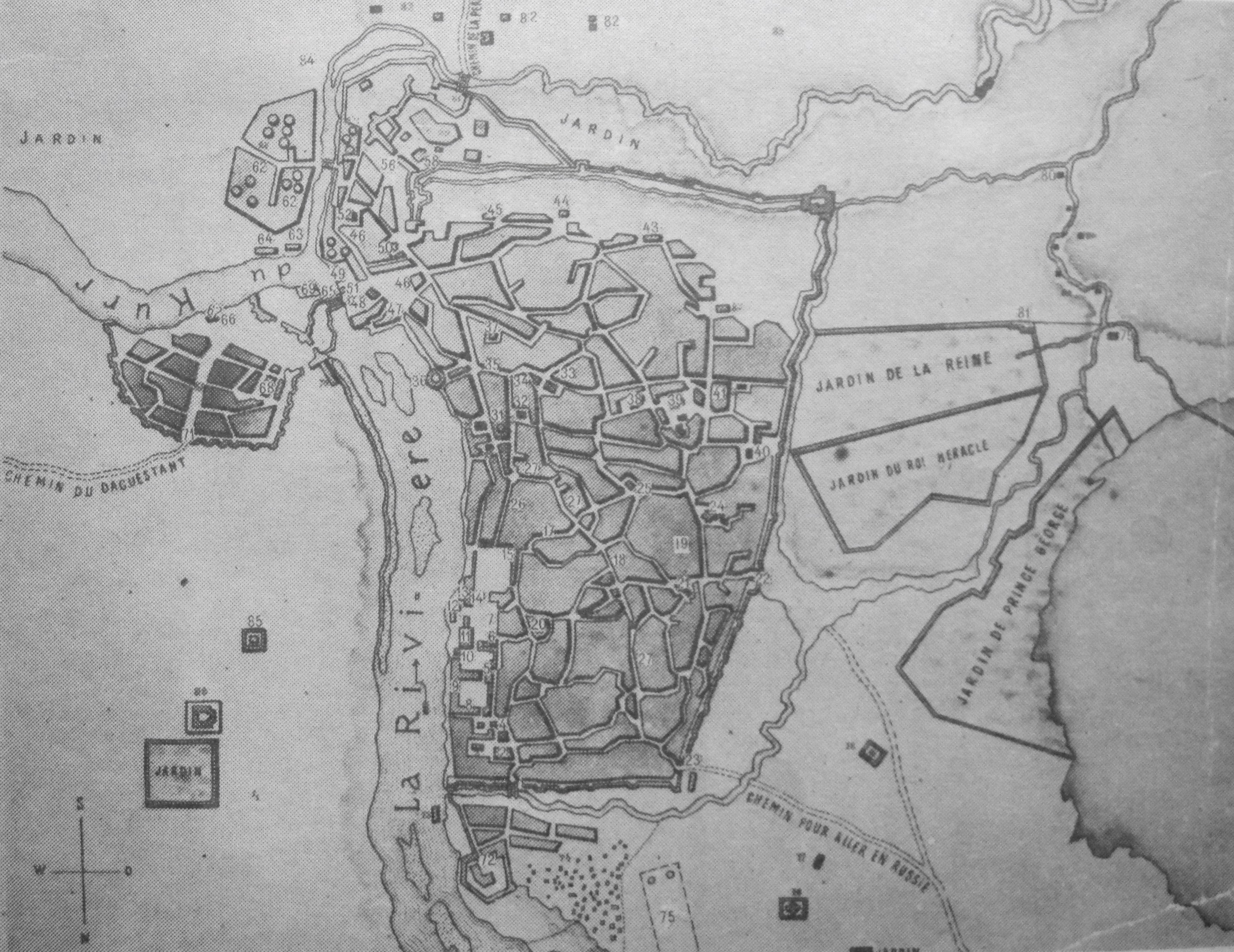 Map of Tbilisi, the capital of Georgia drawn by the Russian officer Alexander Stepanovich Pishchevich (1764–1820) in the Fort of St. George at the Line of Caucasus in 1785. It was first published by the Imperial Odessa Society for History and Antiquities in 1902.